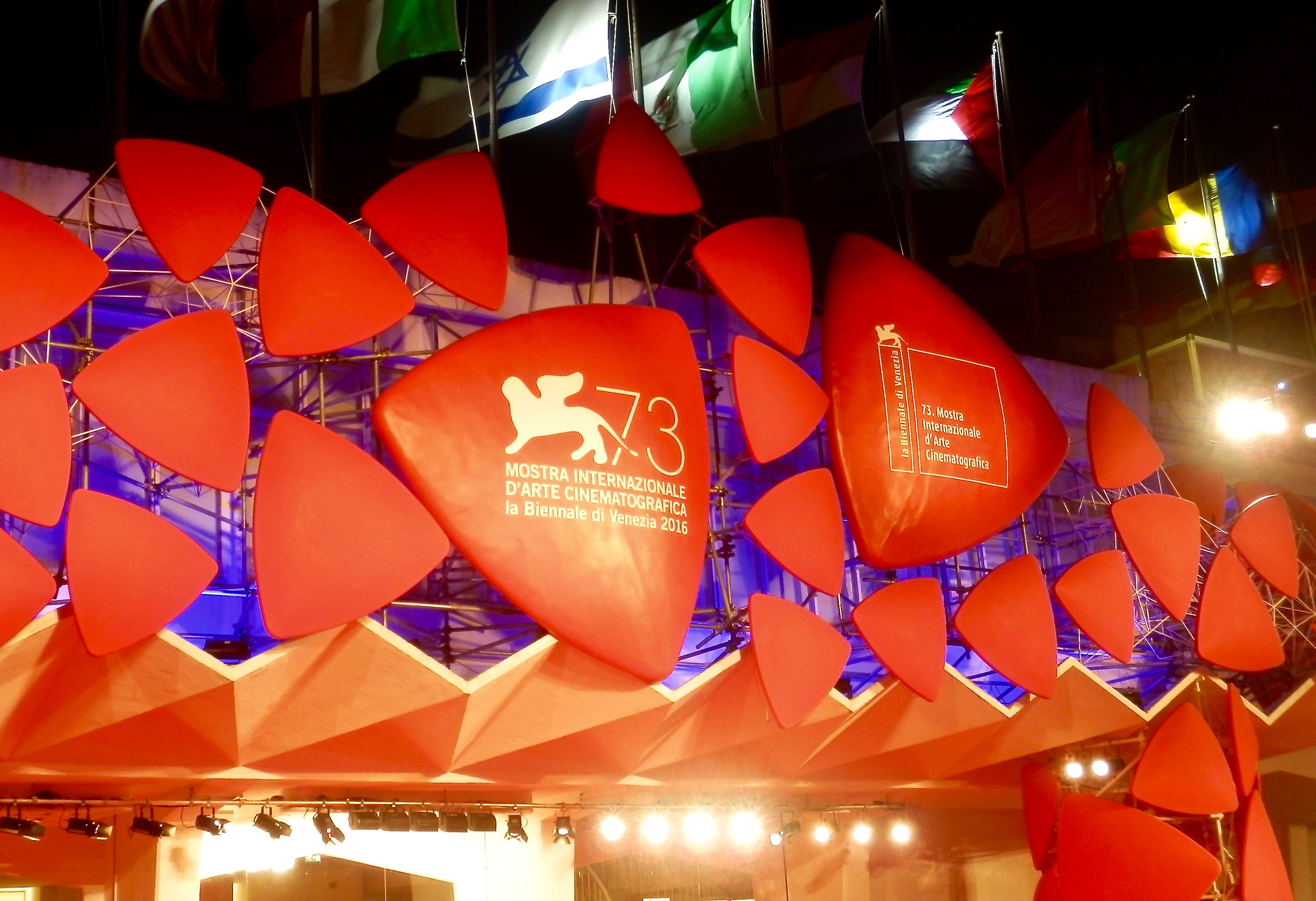 73nd Venice International Film Festival Official Logo